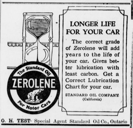 Zerolene gasoline ad from 1913. Standard Oil of California.